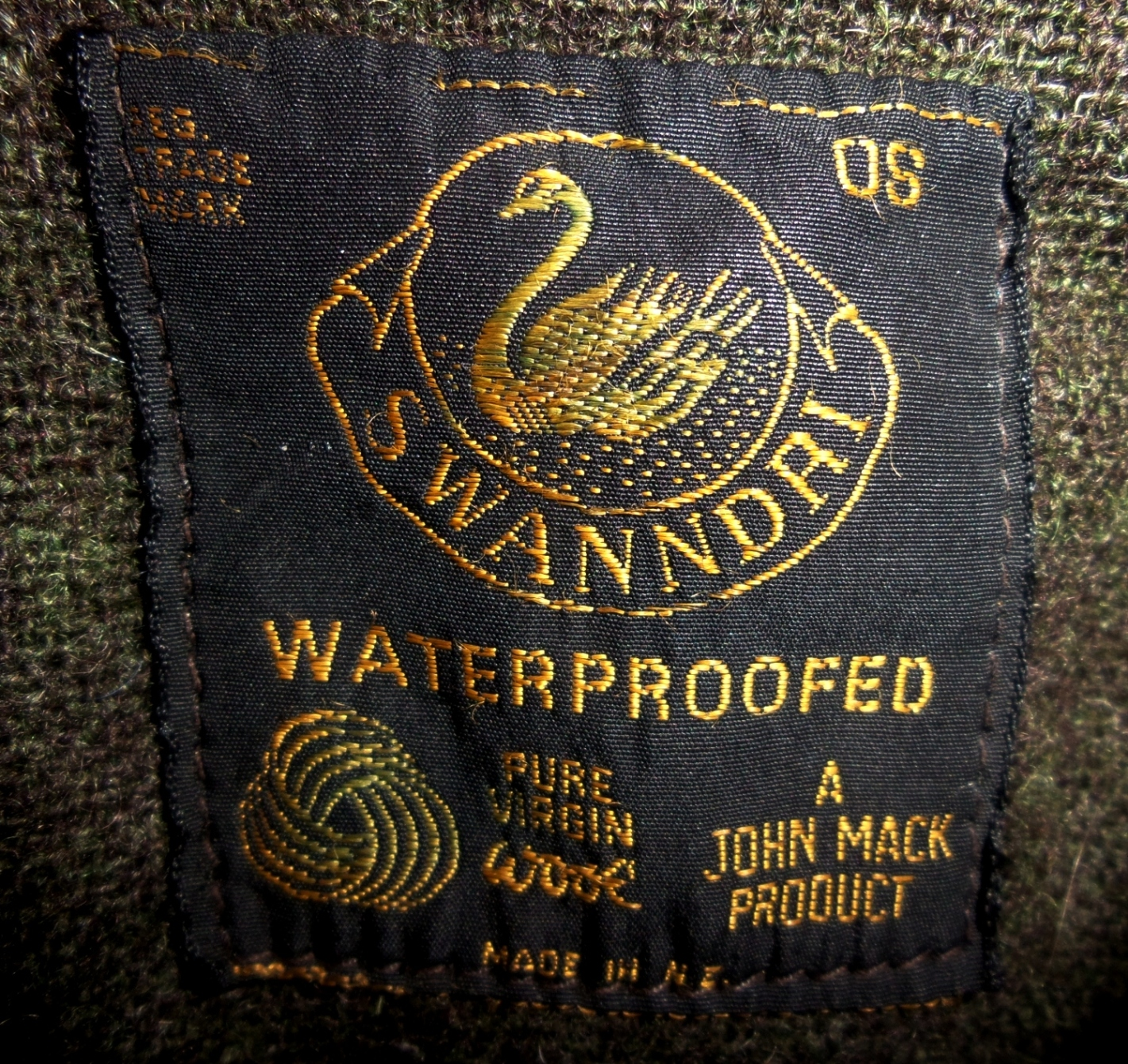 Swanndri brand clothing label (logo) probably from circa 1965-1975. Located inside the collar of a wool coat / jacket.